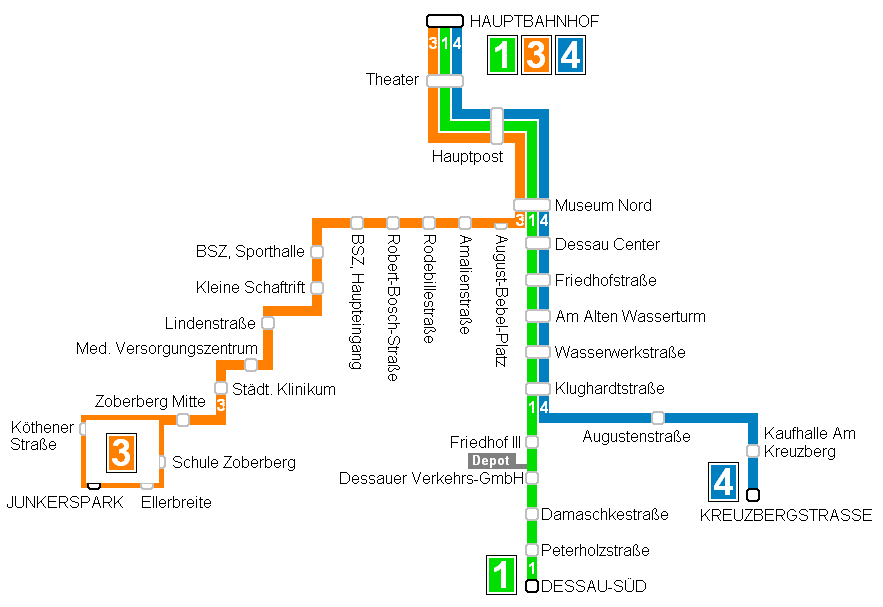 Tram Network Dessau (Germany)